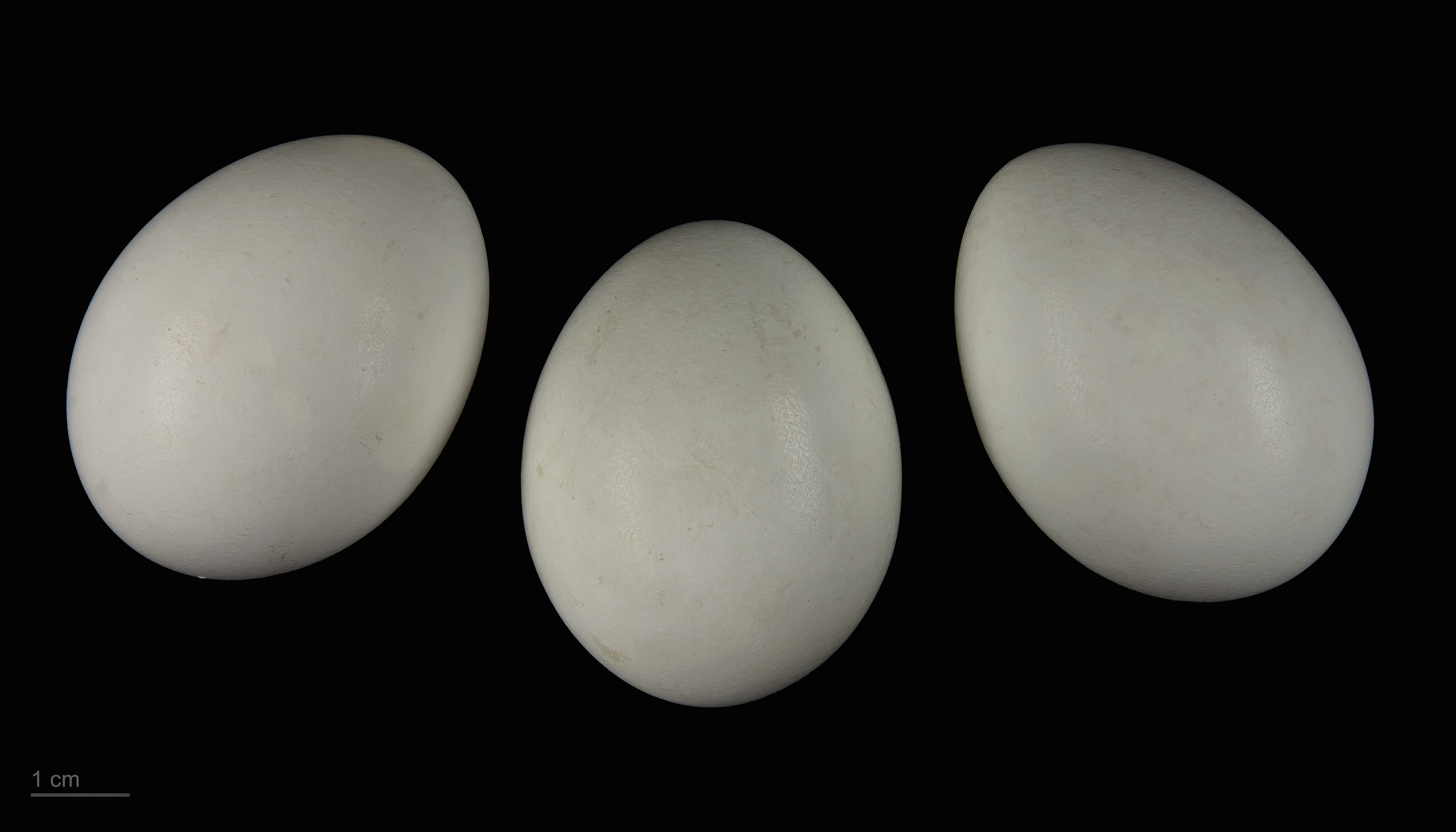 Eggs of hen harrier specimens of the same spawn ; collection of Jacques Perrin de Brichambaut.